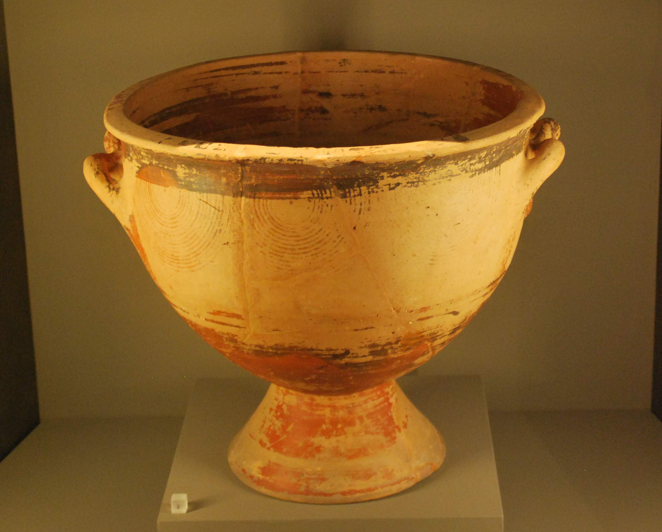 High footed krater with double handles (grave marker); 11th-10th century B.C. (Middle-Late Protogeometric); N.P Goulandris Coll. 290 in the Museum of Cycladic Art in Athens.